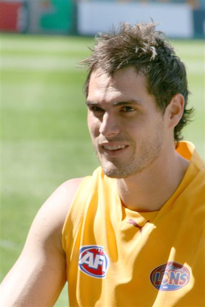 Jamie Charman at a Brisbane Lions public training session in 2008.